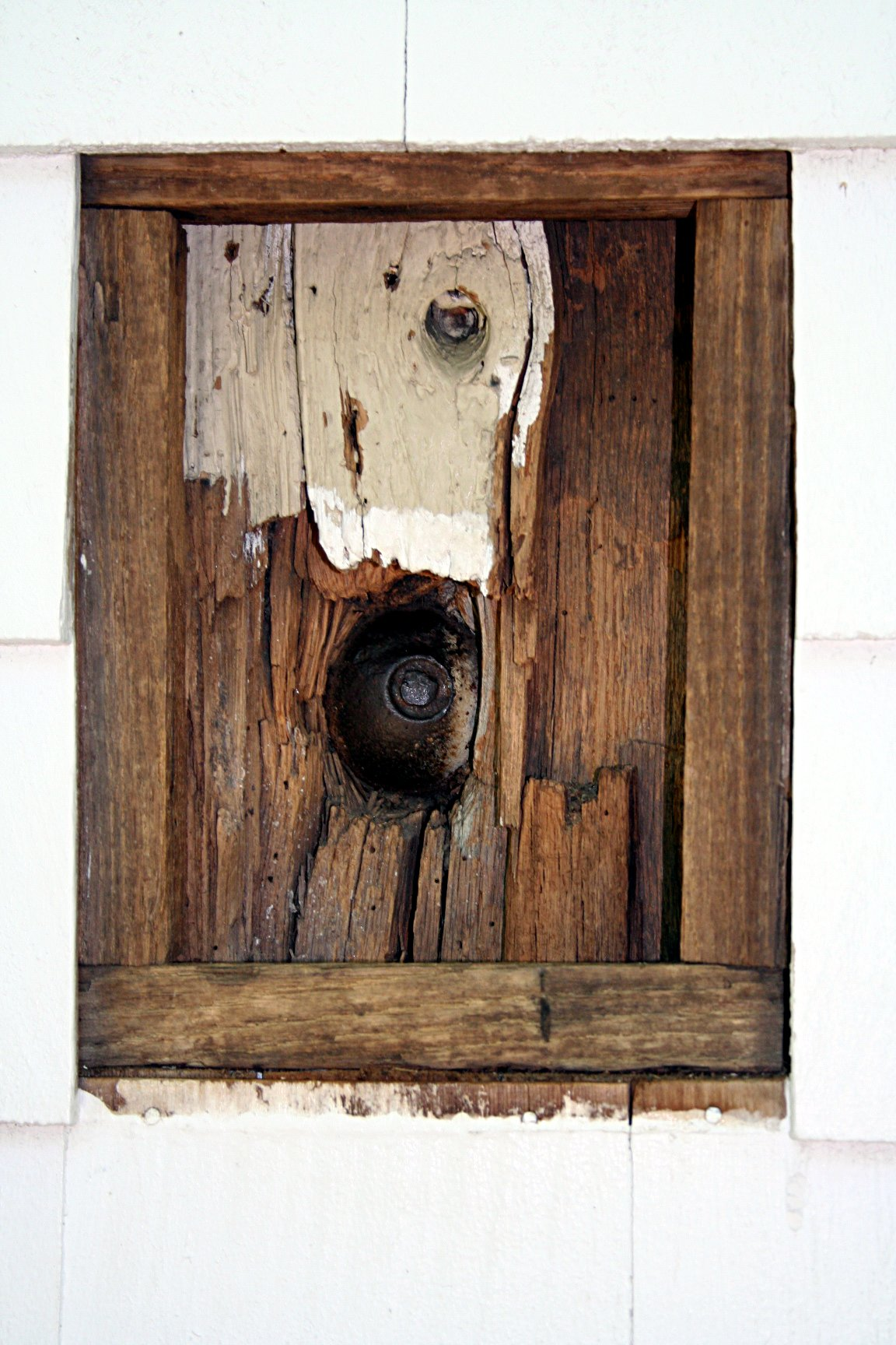 Photograph of a British cannonball from the American Revolutionary War lodged into a corner post of Keeler Tavern in Ridgefield, Connecticut, United States of America